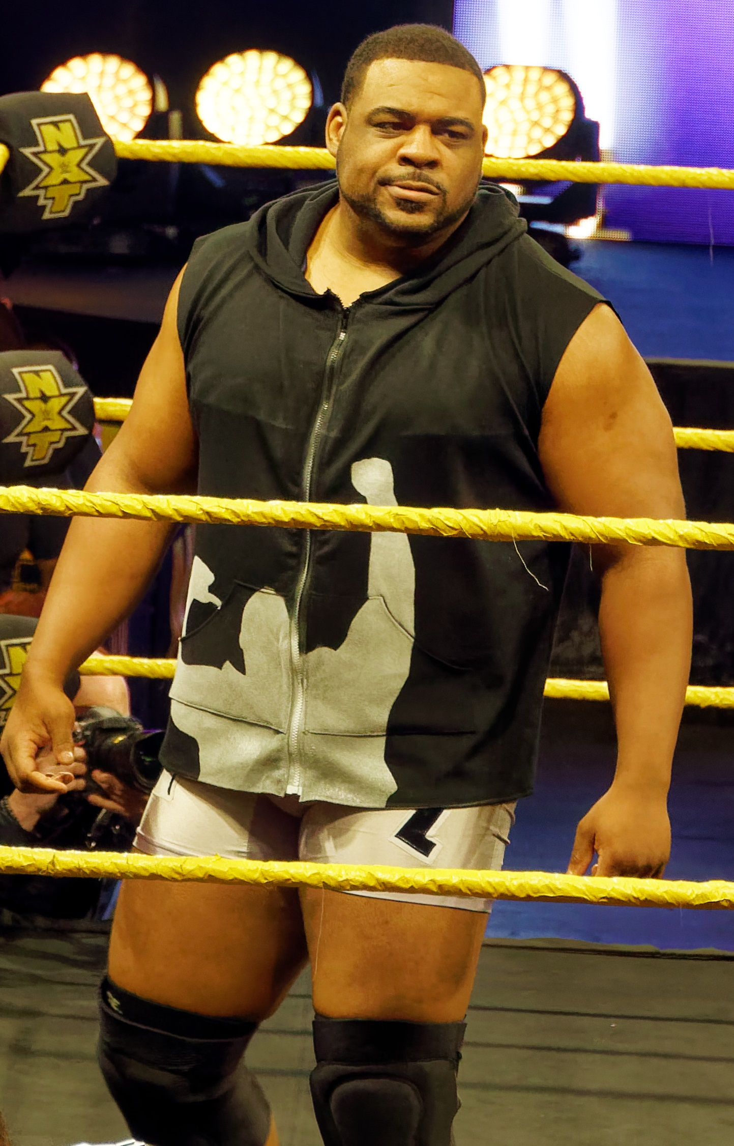 Professional wrestler, Keith Lee on April 5, 2018, at a WWE event.